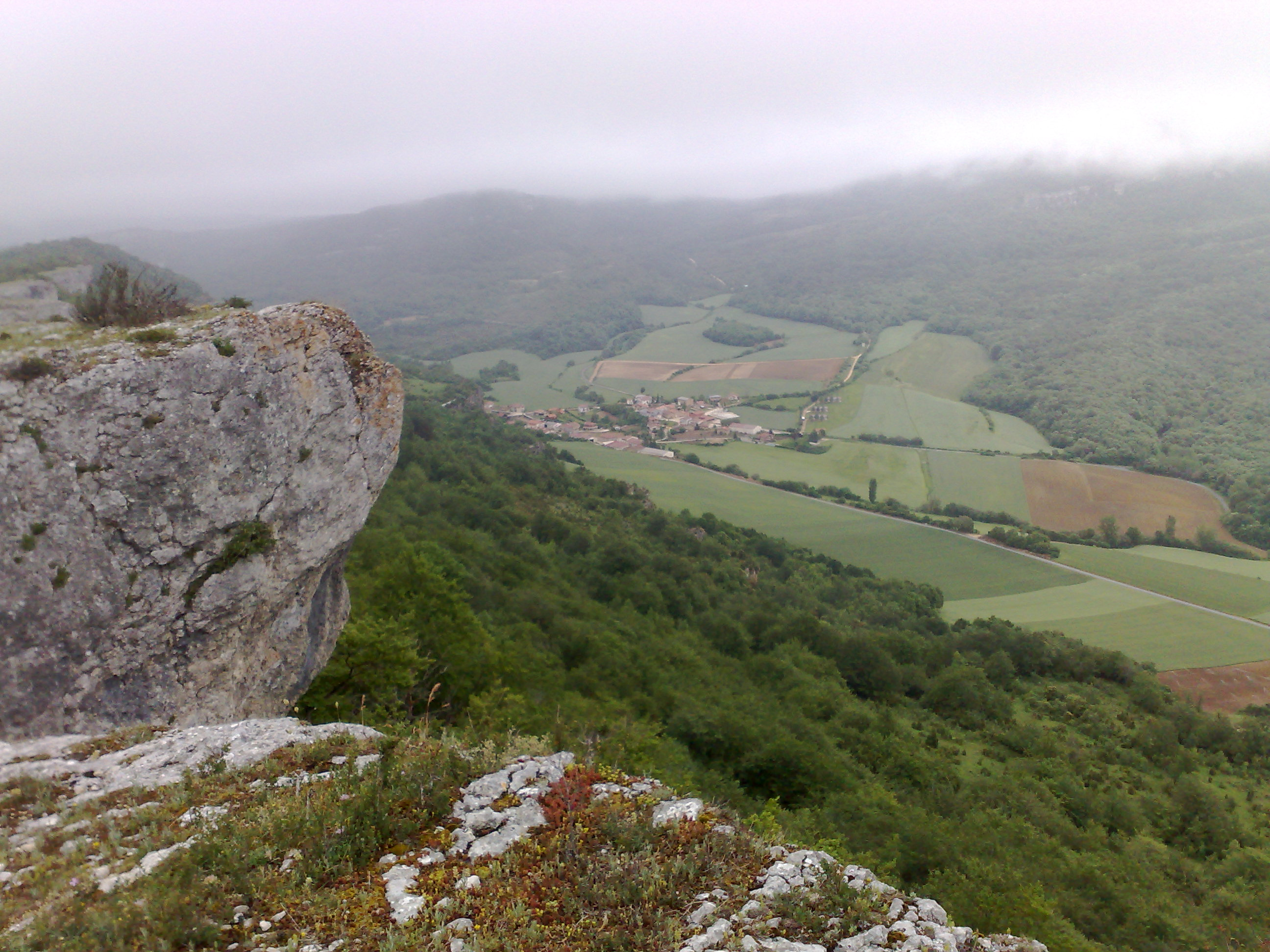 Sabando, little village in Arraia-Maeztu, Araba, Basque Country seen from the way to mount Arburu.